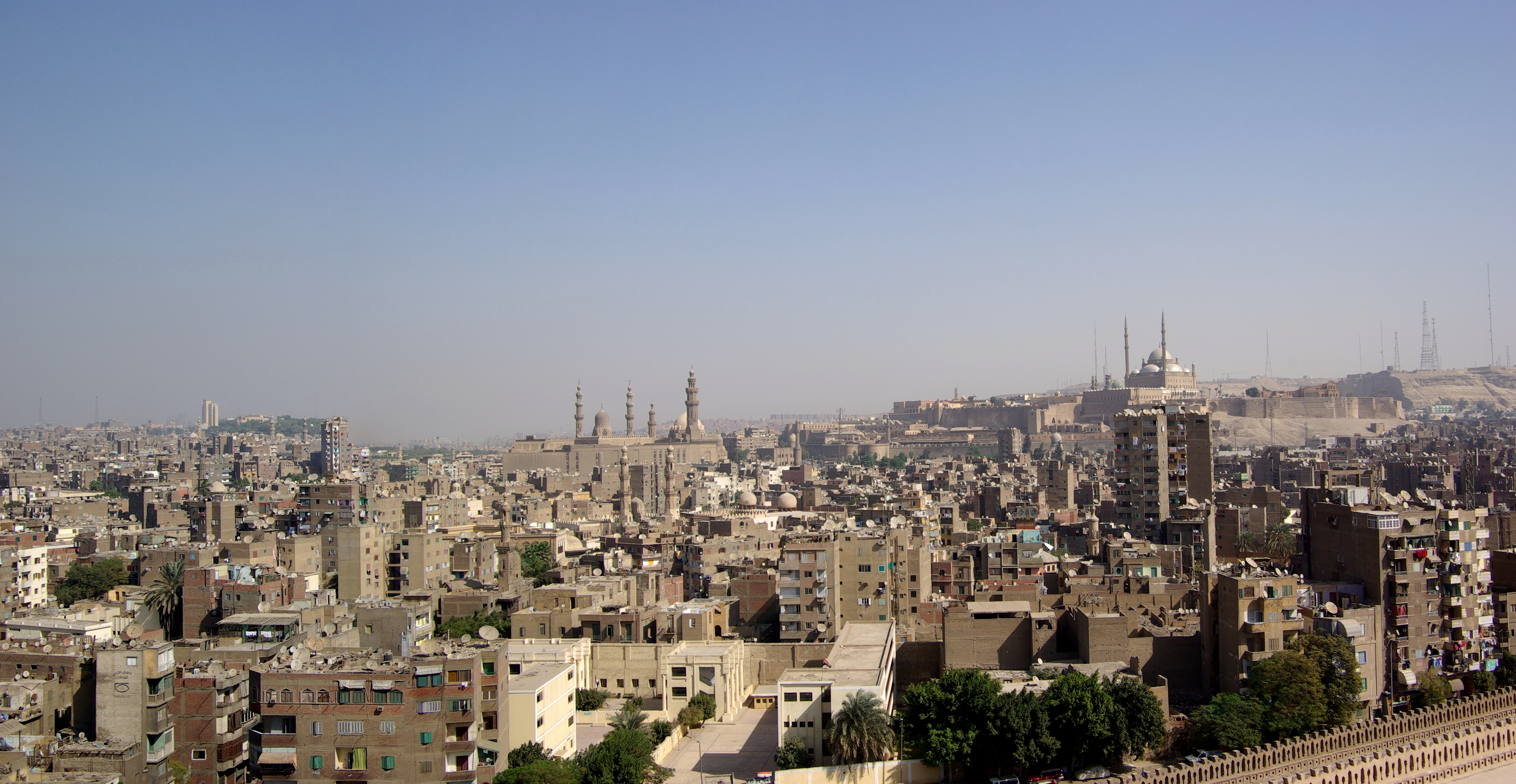 Egypt, Cairo, seen from the minaret of the Mosque of Ibn Tulun